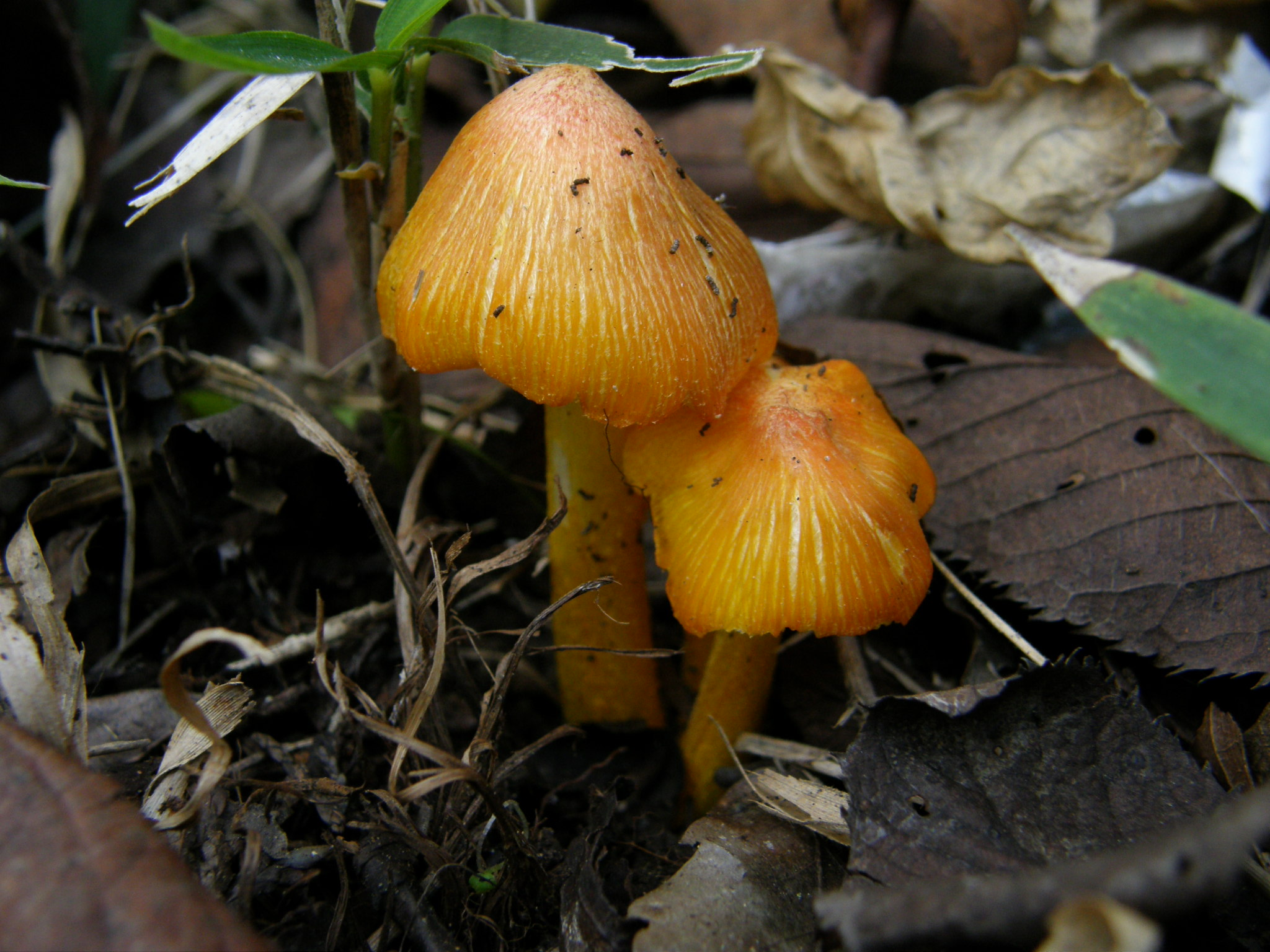 Hygrocybe flavescens